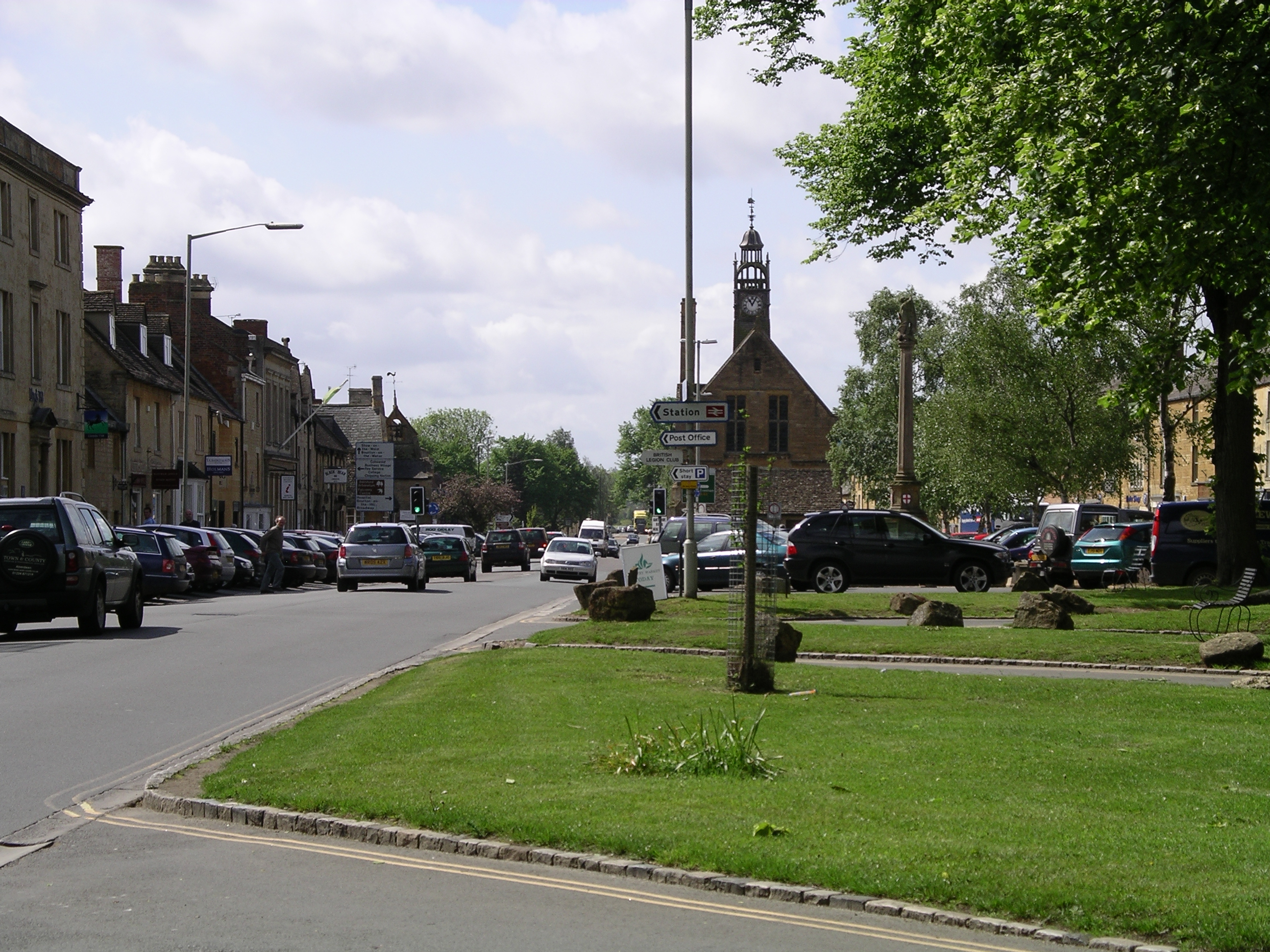 photo of the high street in Moreton-in-Marsh, Gloucestershire, England.